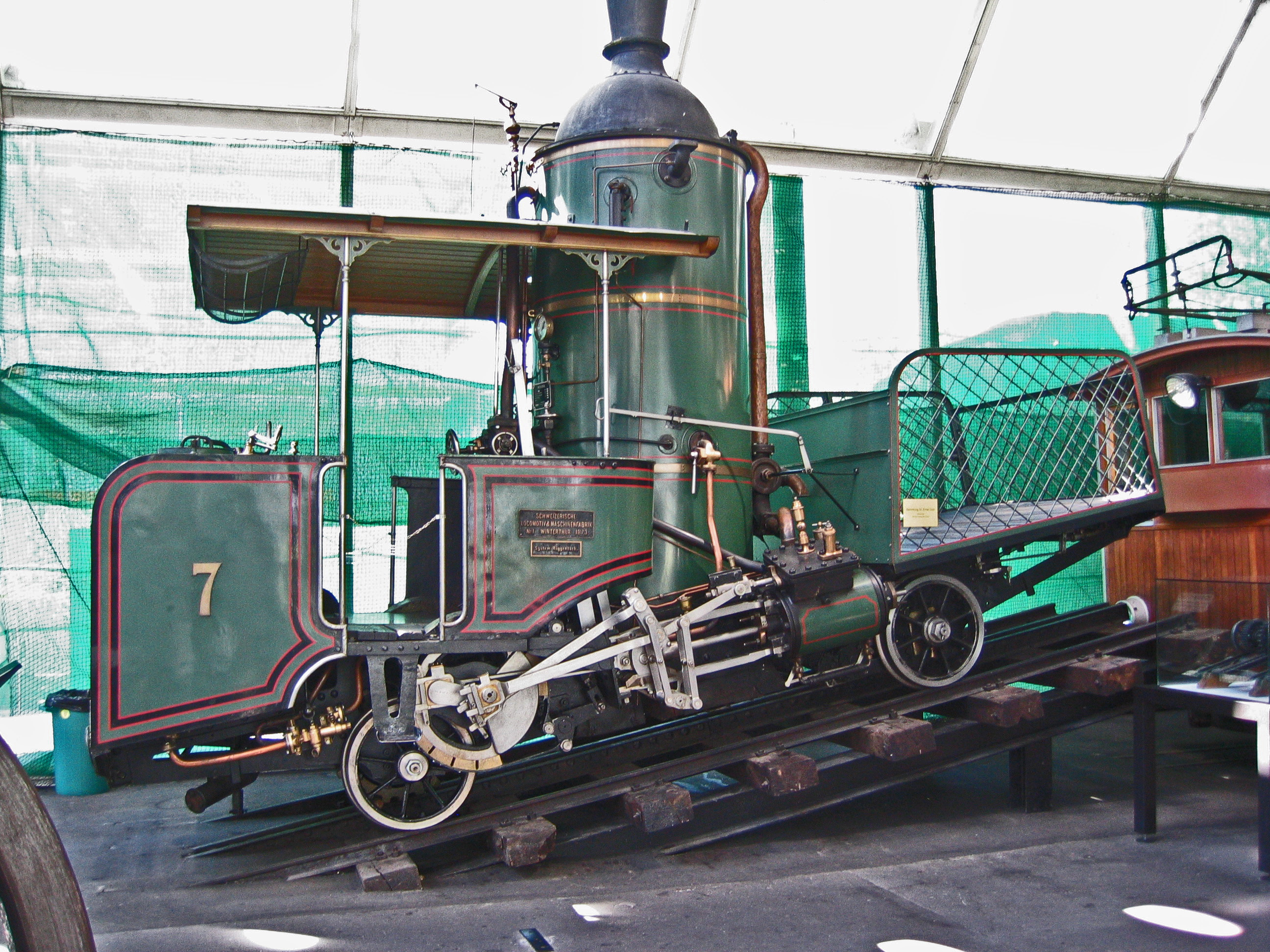 The first locomotive built by Schweizerische Lokomotiv- und Maschinenfabrik (SLM). It was delivered to Vitznau-Rigi rack railway in 1873. Photographed in Verkehrshaus der Schweiz in Luzern in 2008.